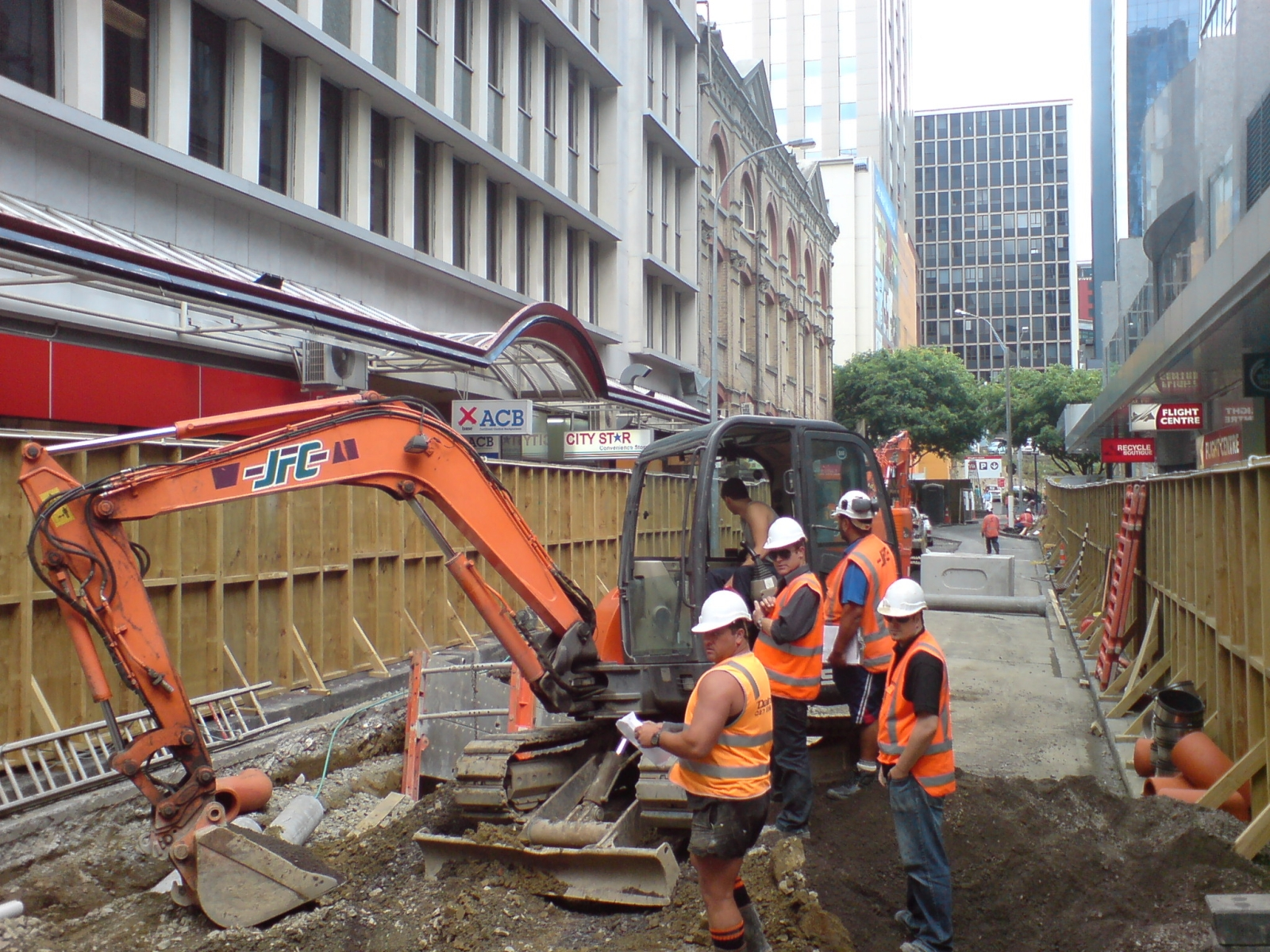 Work on Darby Street in Auckland City, New Zealand. The street is to become the first of Auckland's new shared spaces.